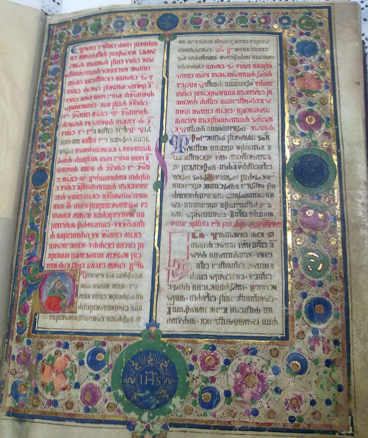 Glagolitic Missal from island of Krk